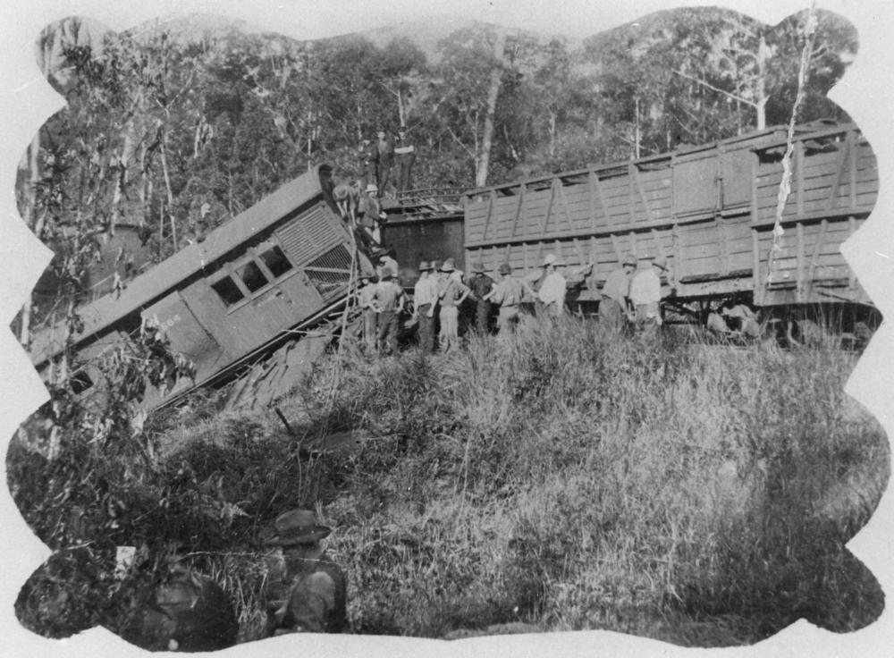 Derailed goods train at Eudlo, 1914 A railway carriage has fallen down an incline and is being prepared to be hoisted back onto the railway tracks by workers. A livestock carriage has also been derailed.